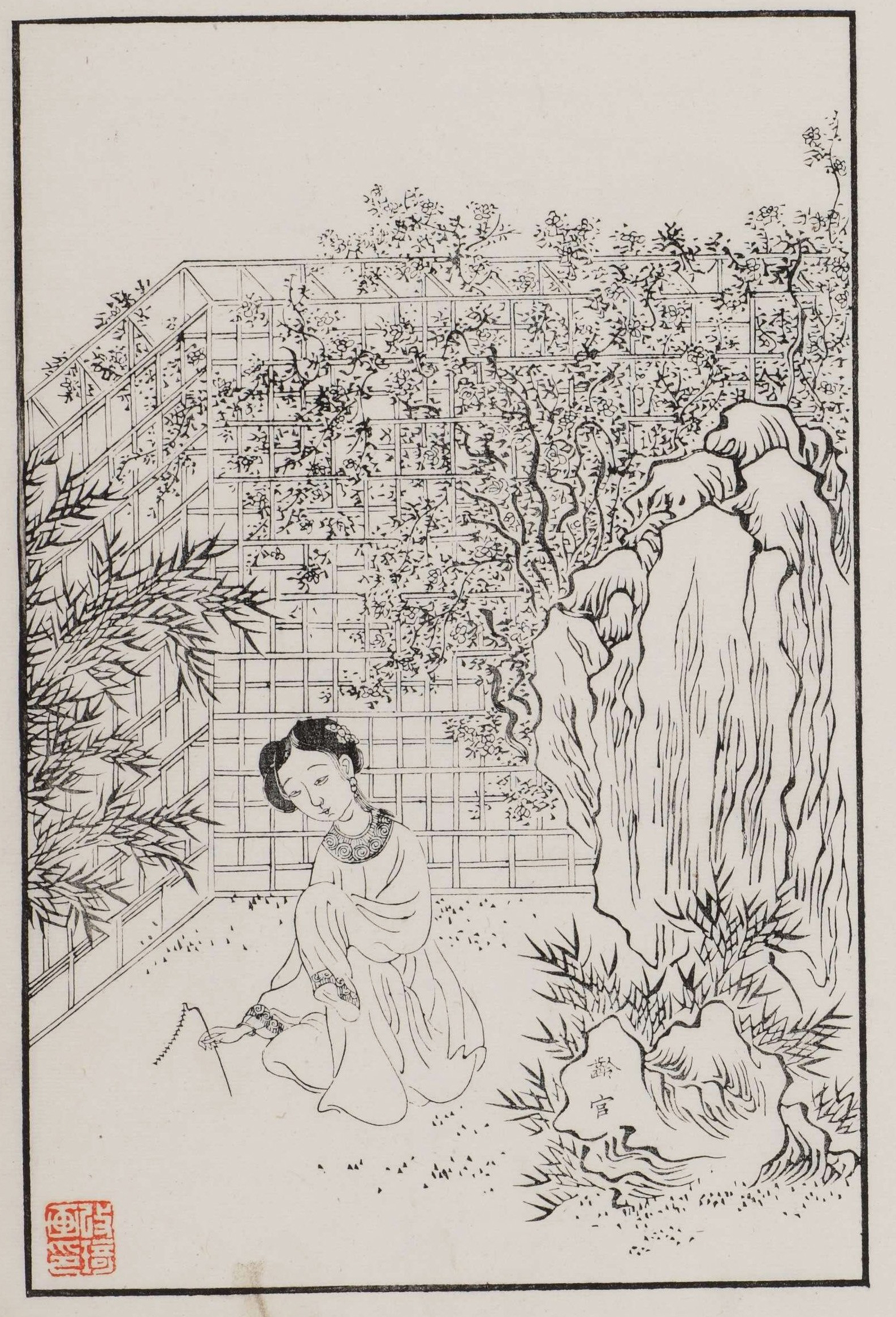 Ling guan